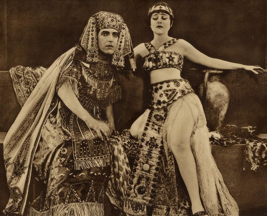 Alan Roscoe (Pharon) and Theda Bara (Cleopatra) in the American drama film Cleopatra (1917) - publicity still (cropped : see source)